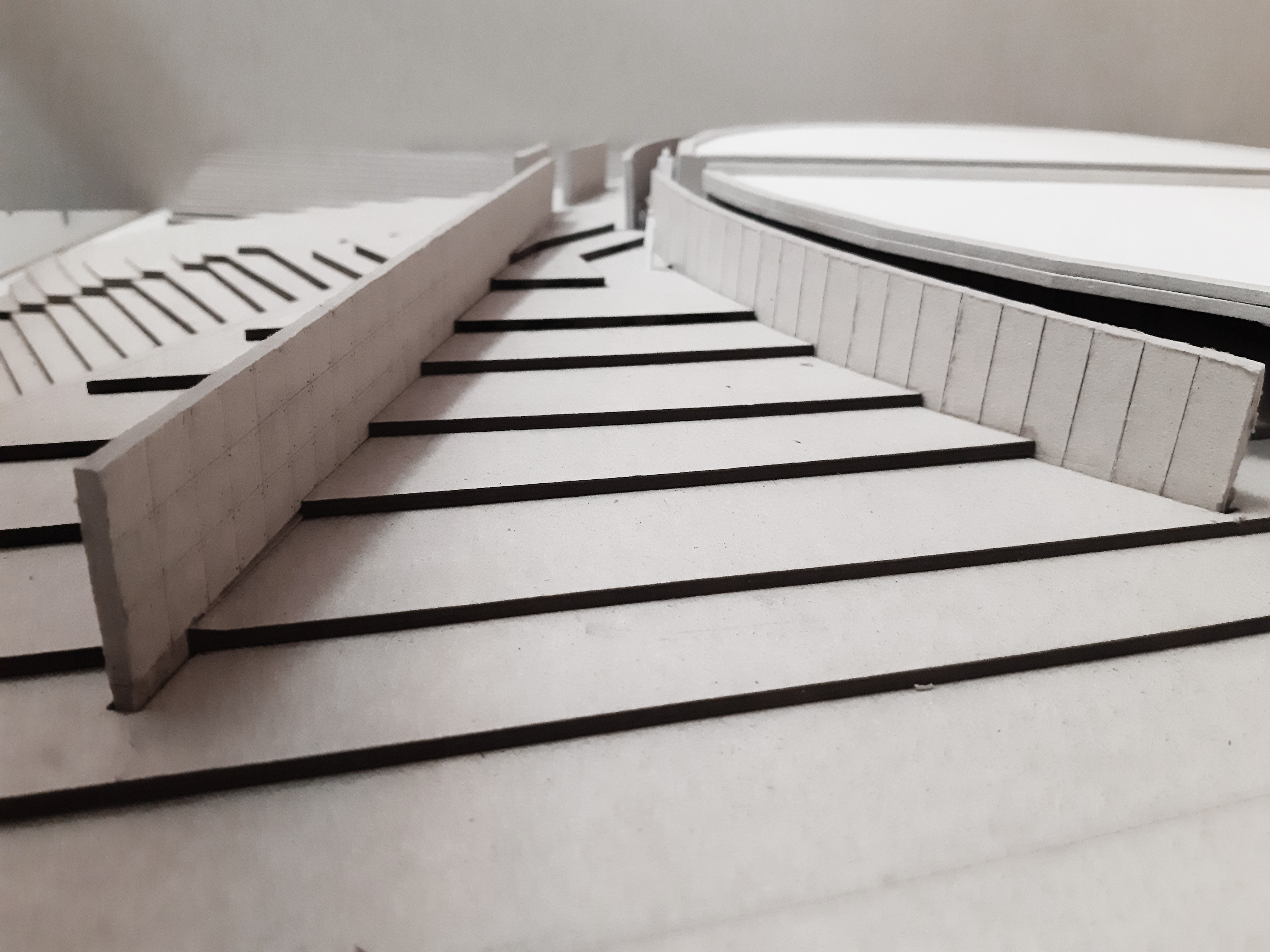 photo of model of the building "Water Temple" designed by the architect Tadao Ando